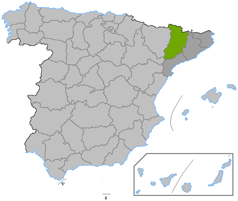 Location of Lleida province